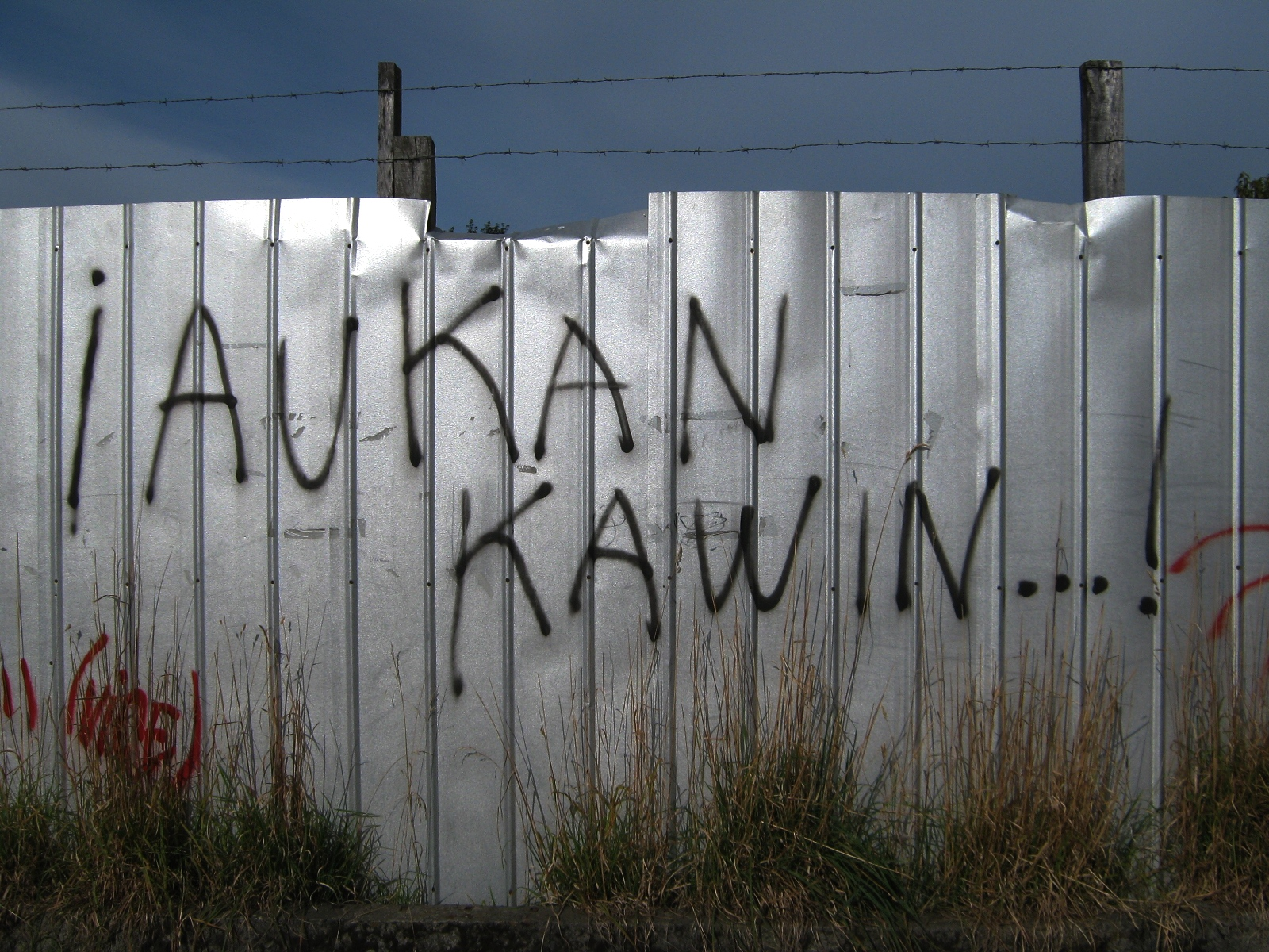 Graffiti in Chiloé, Chile, depicting a sentence in Mapudungun, the Mapuche language. Aukan kawin means "War Council".